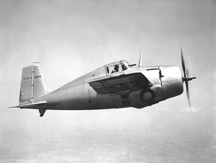 The U.S. Navy Grumman XF4F-3 Wildcat prototype (BuNo 0383) during flight testing, circa April 1939. This aircraft had originally been the XF4F-2 (with rounded wings and tail) and was rebuilt into the XF4F-3. It was finally written off on 16 December 1940.